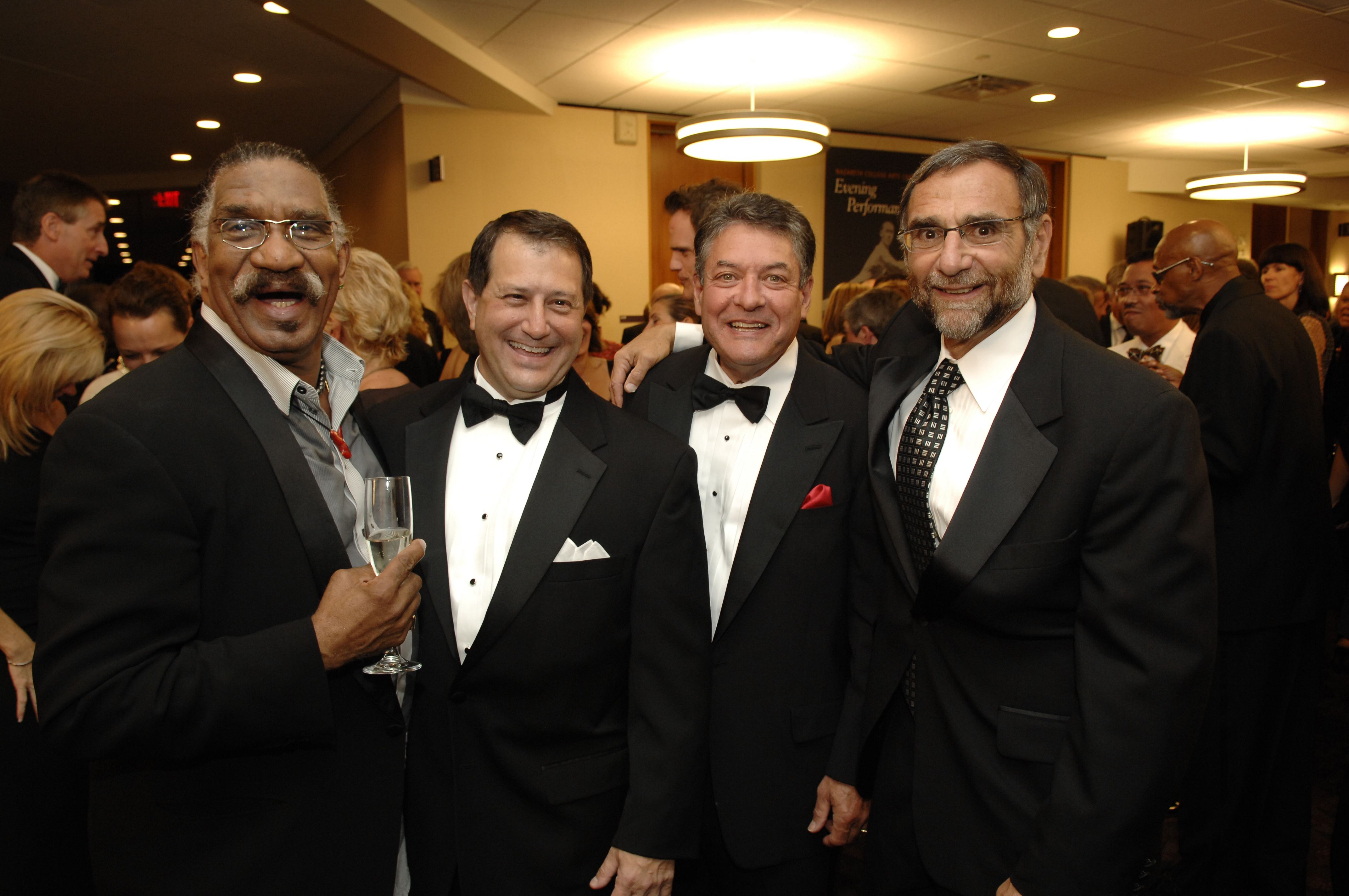 "Garth Fagan, NYS Assemblyman Joseph Morelle, NYS Senator James Alesi, and Nazareth College President Daan Braveman."